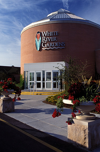 ib0742 gardens indianapolis in indiana entrance to the white river gardens at white river state park